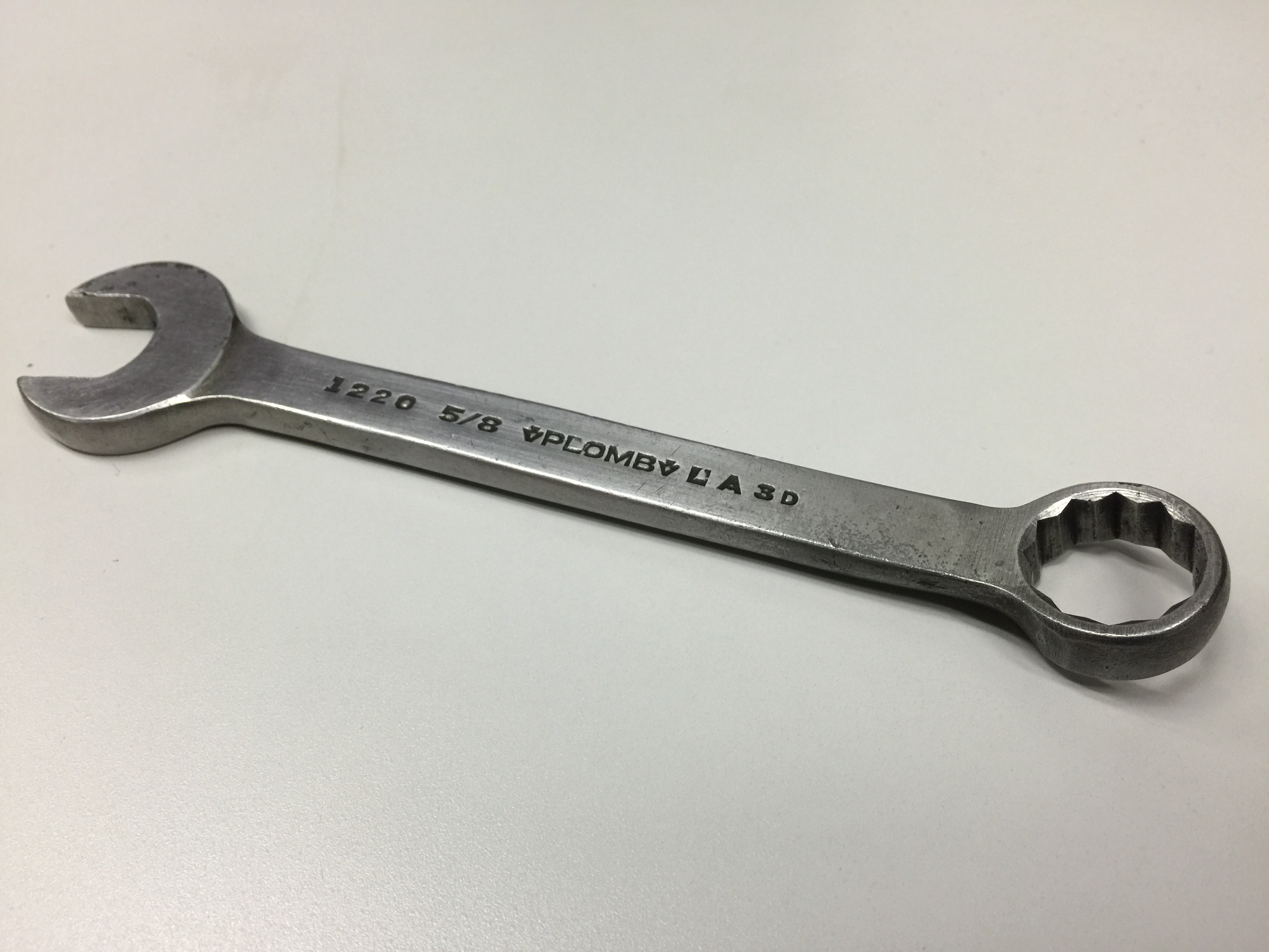 Photograph of a Plomb Tool Company 5/8" Combination wrench manufactured in 1933.